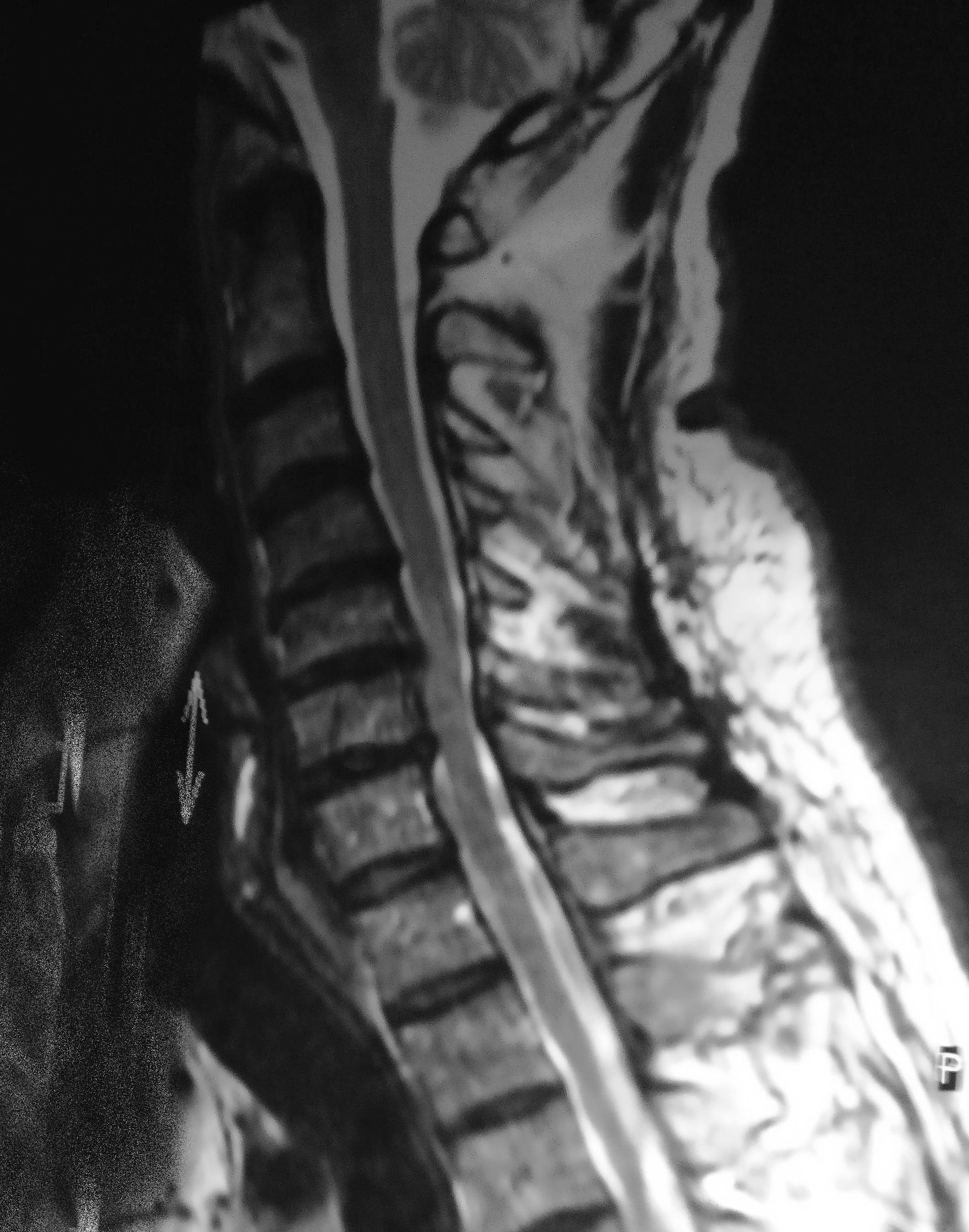 Cervical spinal stenosi